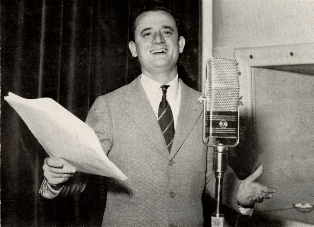 photo from the magazine Radiocorriere (1953)